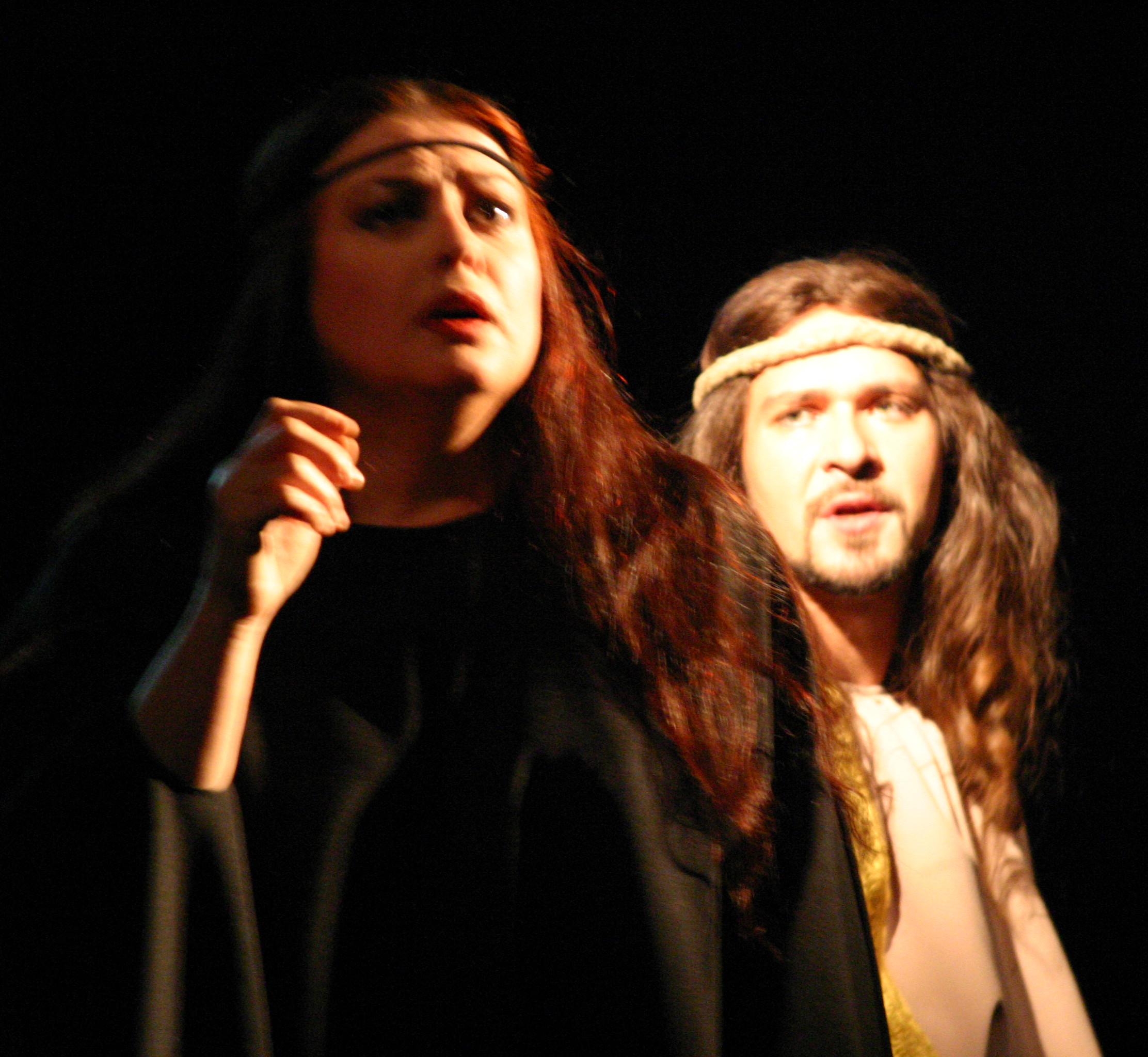 Yaroslava Mosiychuk